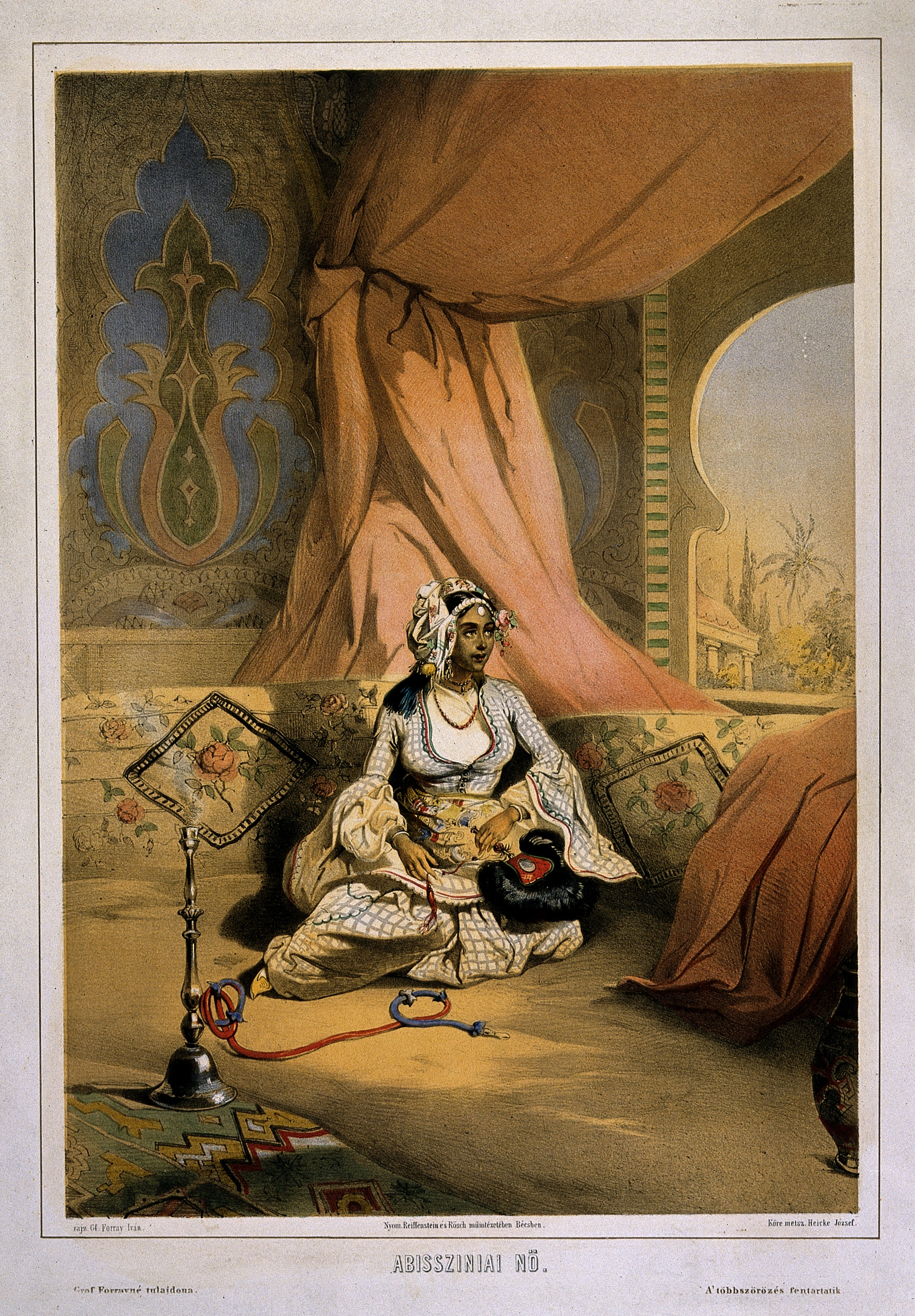 An Abyssinian woman sits on the floor near a smoking hooka. Coloured lithograph by J. Heicke after I. Forray, 18th century. Iconographic Collections Keywords: Joseph Heicke; Iván Forray